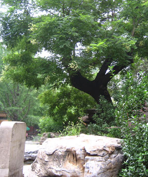 Guilty Chinese Scholar Tree, Bejing